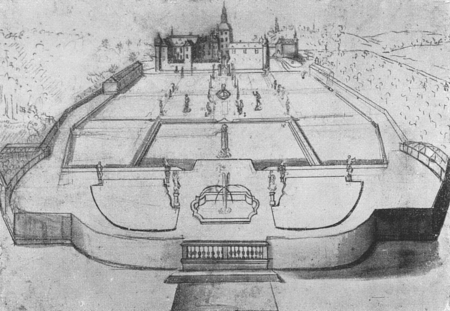 Schloss Gudenau, old drawing